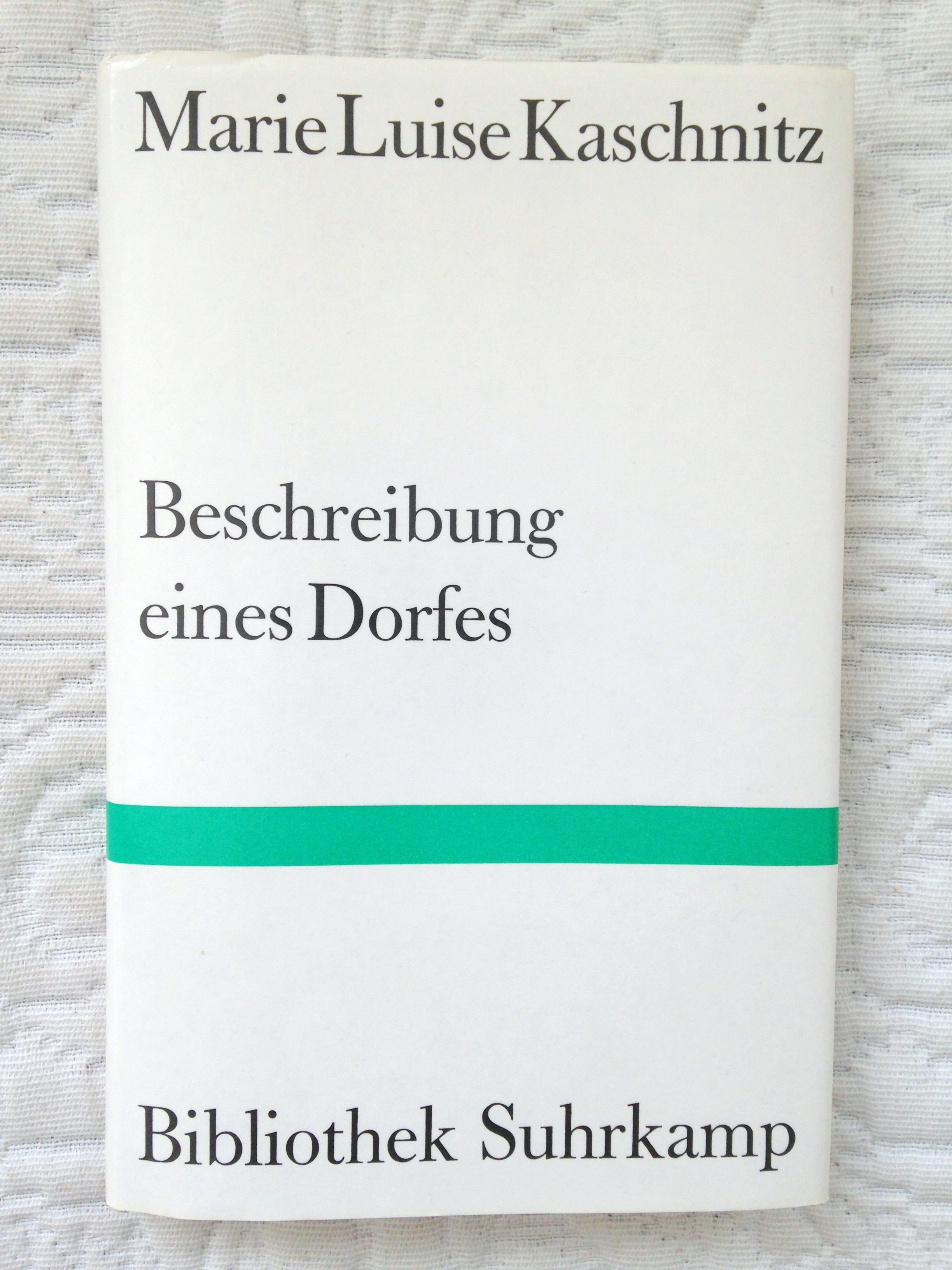 Published in 1991 by Suhrkamp in Frankfurt am Main